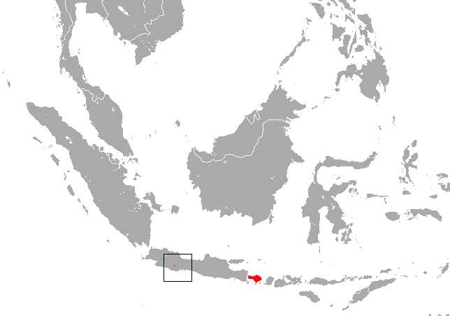 Canut's Horseshoe Bat (Rhinolophus canuti) range (red — extant, orange — possibly extinct)